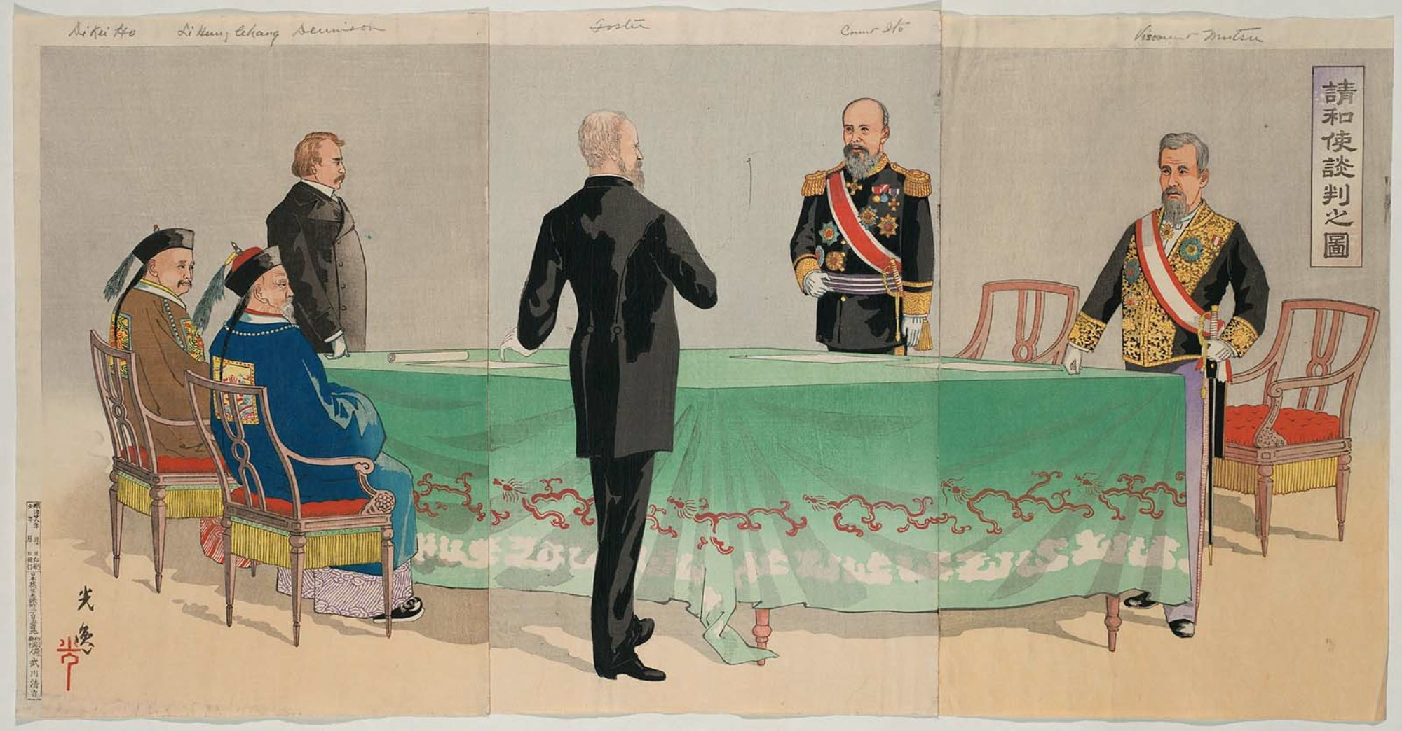 Japanese Representatives Meet with a Chinese Peace Mission (Seiwashi danpan no zu). woodblock print. Peace negotiations of the First Sino-Japanese War at Hiroshima on February, 1895 (left to right):邵友濂?, 張蔭桓, Charles Denby Jr.?, Edwin Dun?, Itō Hirobumi and Mutsu Munemitsu.